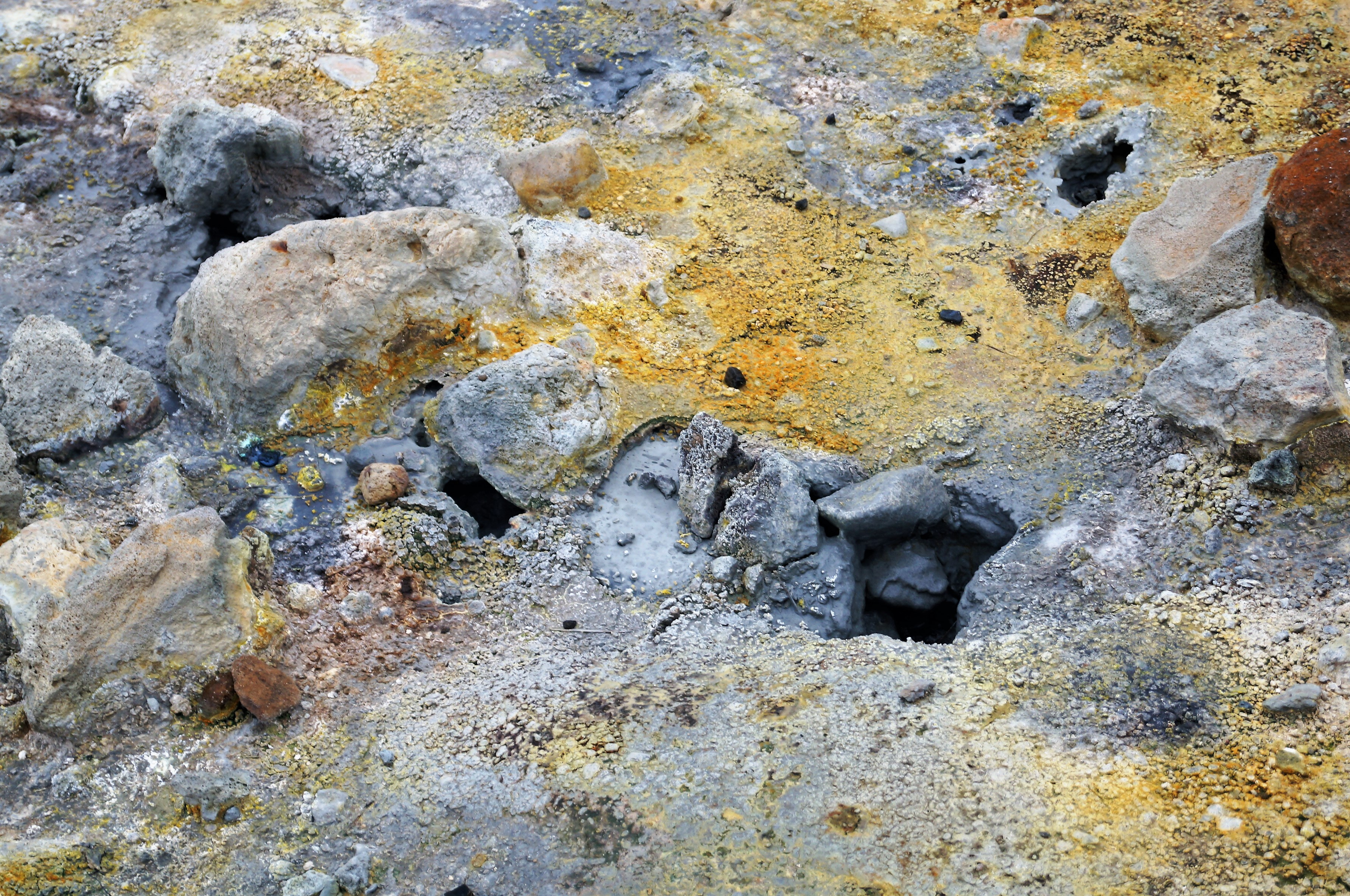 Mineral deposits and mud holes at Krýsuvík-Seltún geothermal field on 2019-07-08